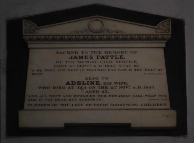 Memorial of James Pattle, St. John's Church, Kolkata